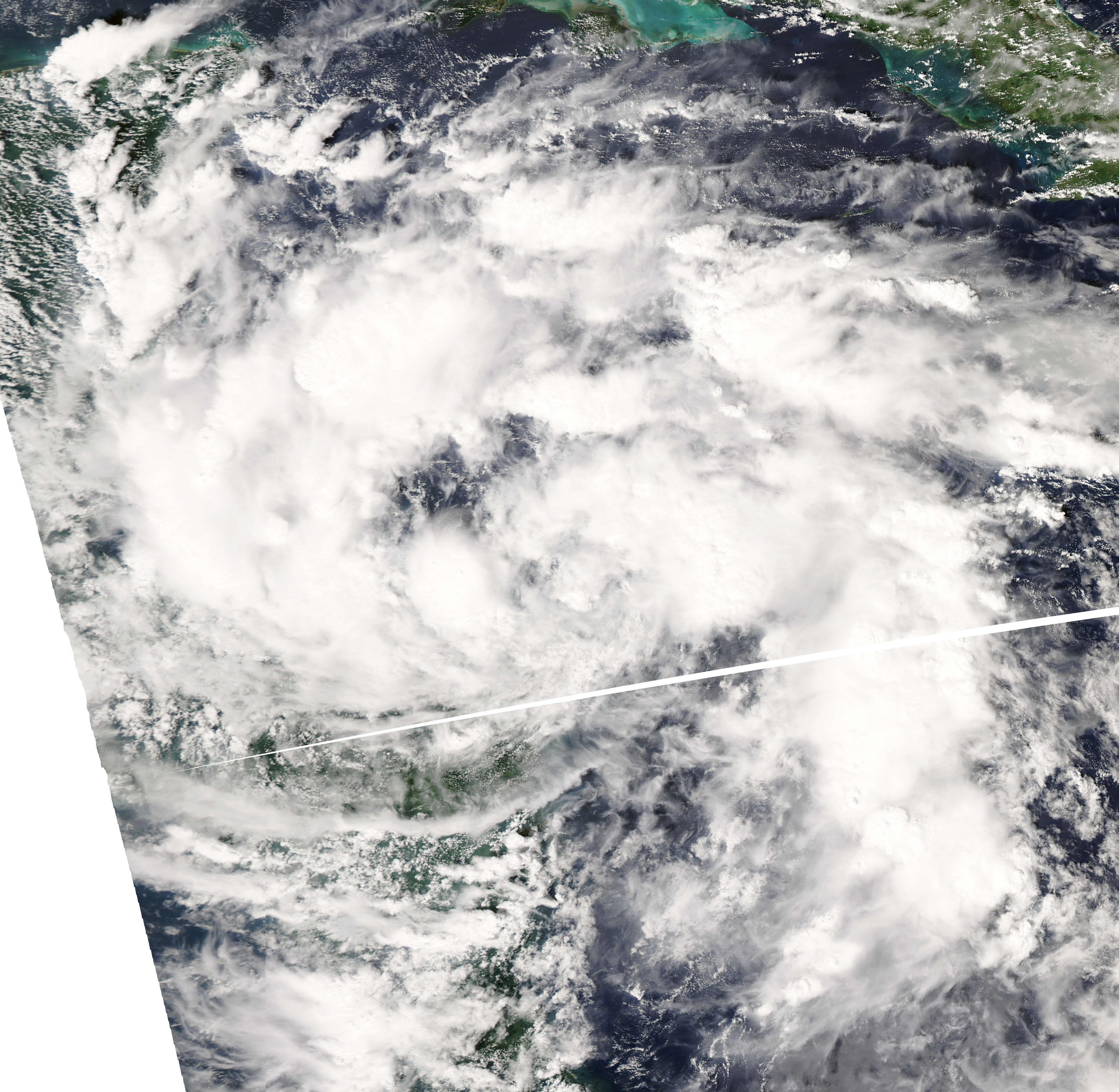 Tropical Depression Sixteen (2008) on October 14.